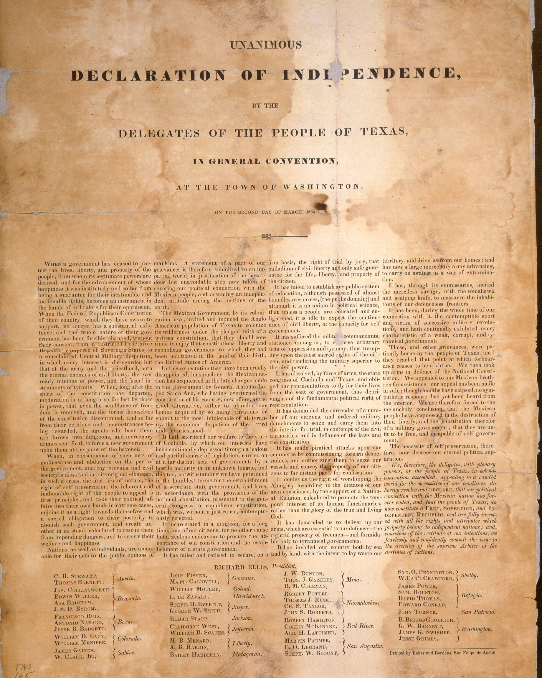 Larger image of the the Texas Declaration of Independence